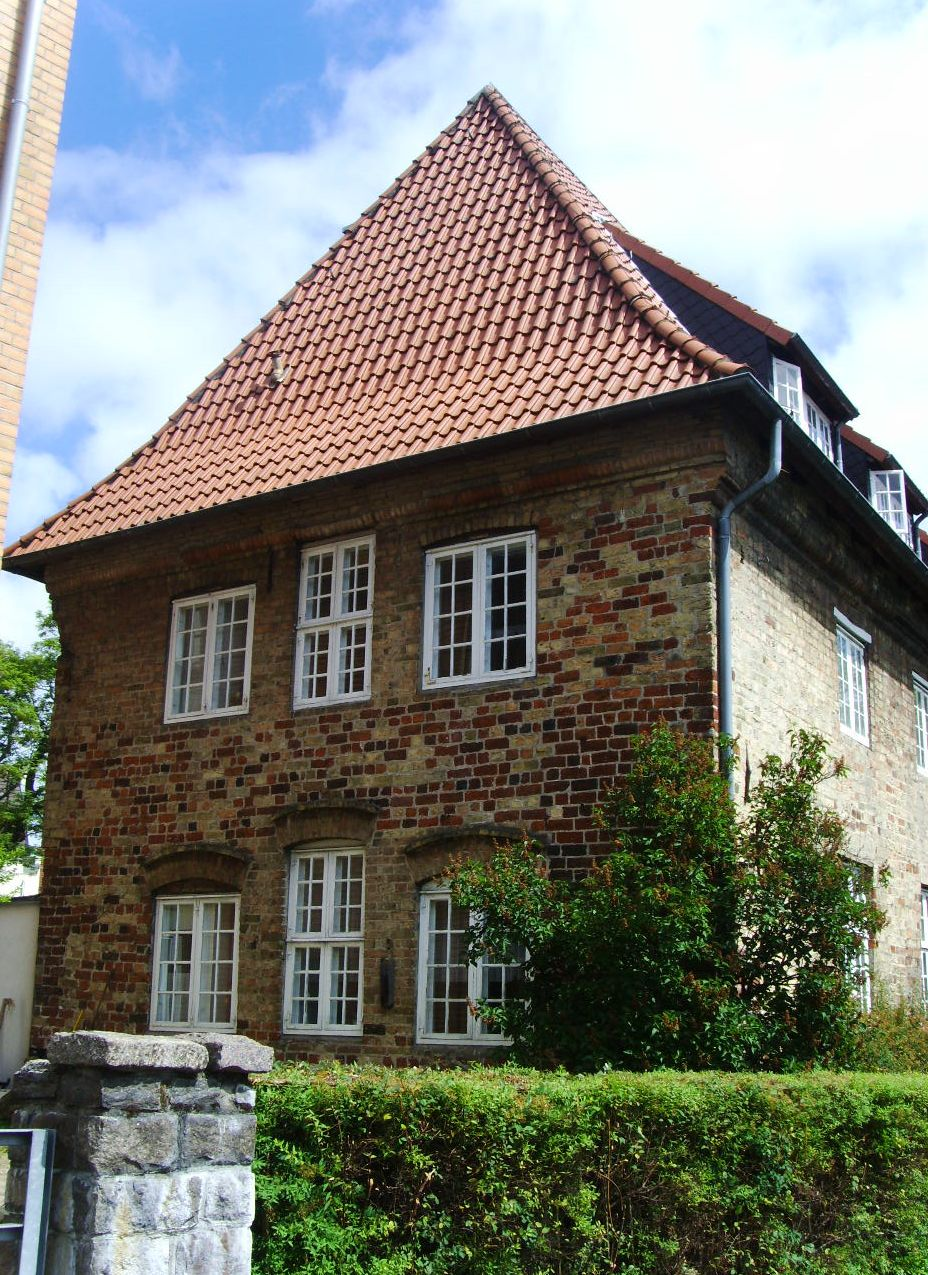 The Franciscan Monastery in Flensburg.